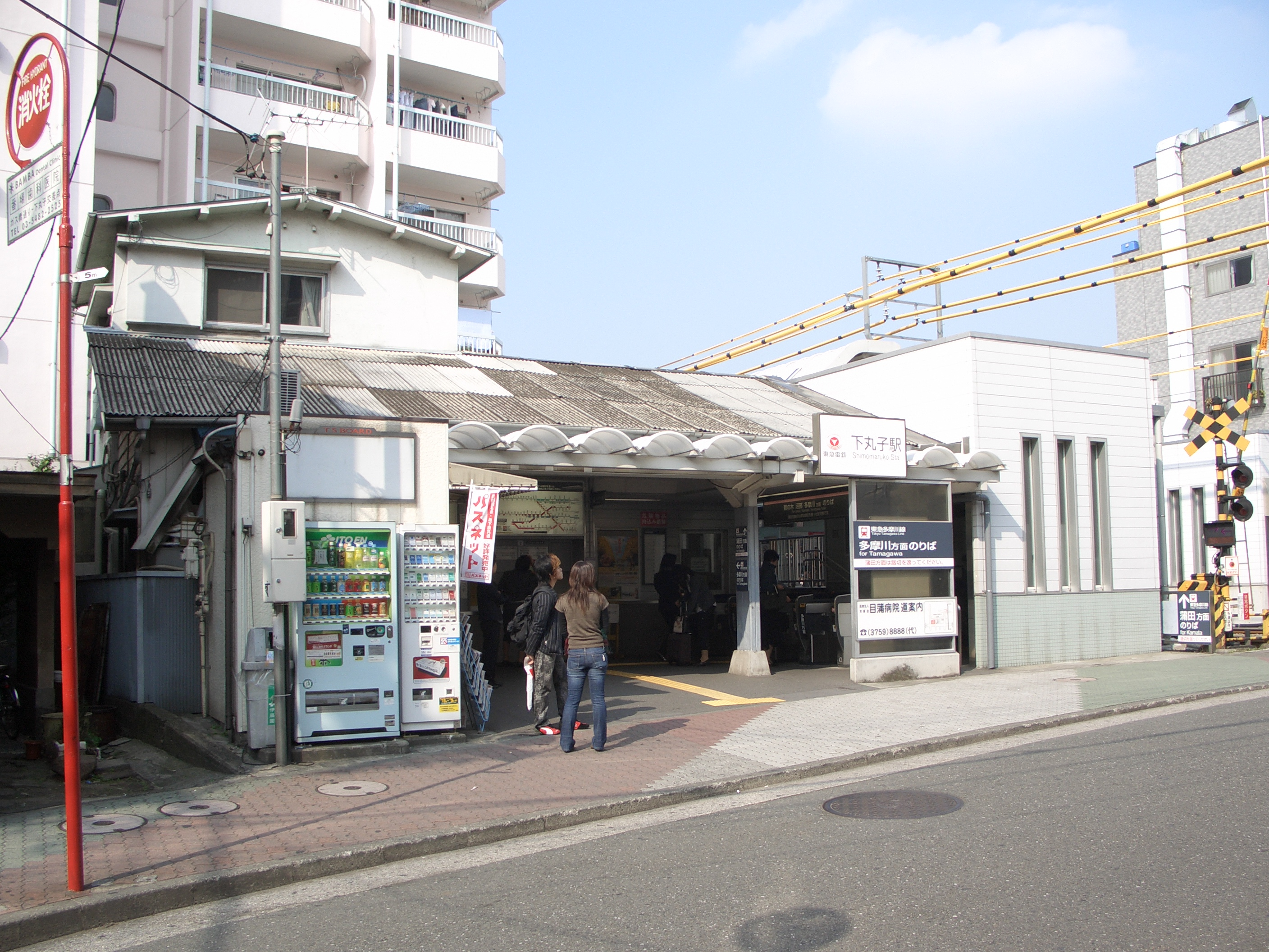 Description（説明）: Tokyu Tamagawa line Shimomaruko Station for Tamagawa Gates（東急多摩川線 下丸子駅 多摩川方面 のりば） Source（出典）: Tokyu Tamagawa line Shimomaruko Station（東急多摩川線 下丸子駅） Photographer/Painter（制作者）: yaguchi（矢口） Date（製作日）: 2006-11-03